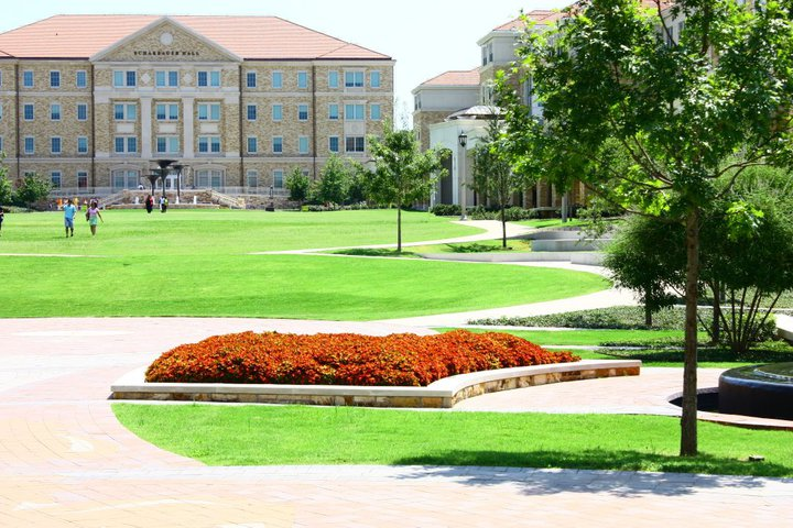 TCU Commons Summer